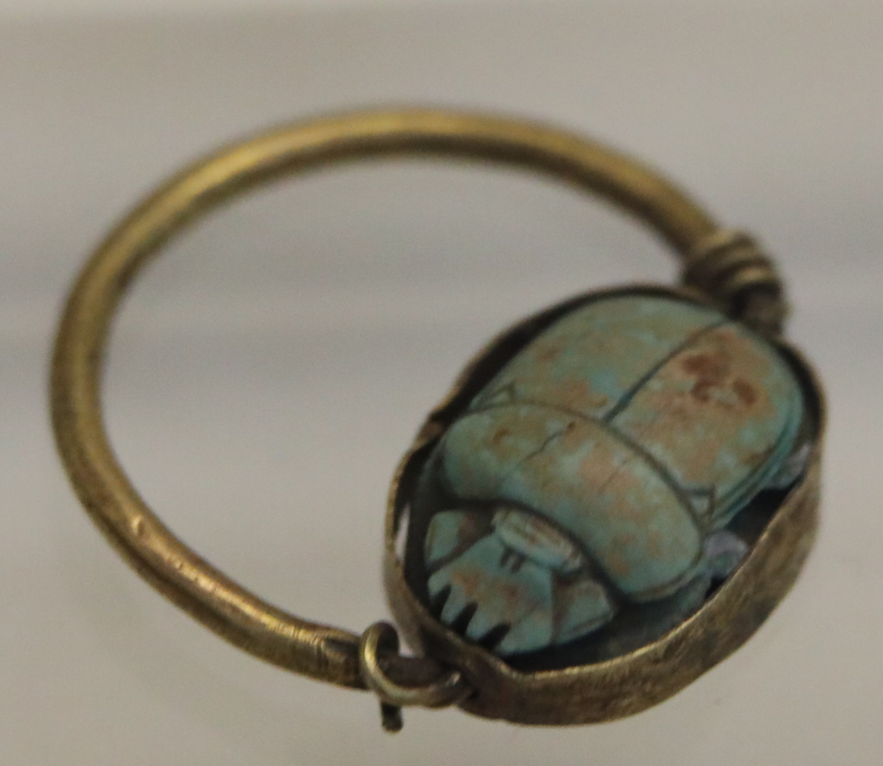 Photo of a Scarab ring of Tuthmosis III